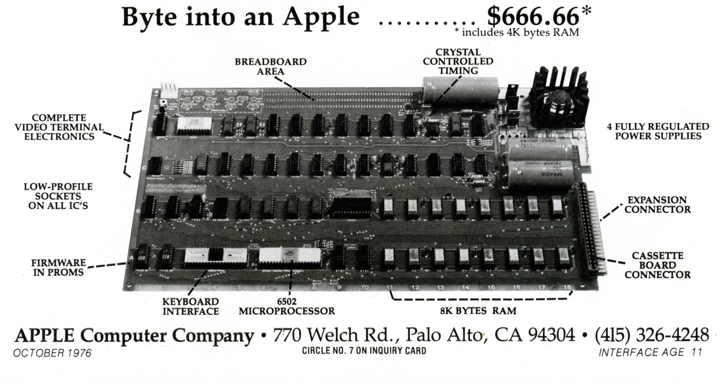 Bottom part of the Apple 1 Computer advertisement published in the October 1976 issue of Interface Age magazine.